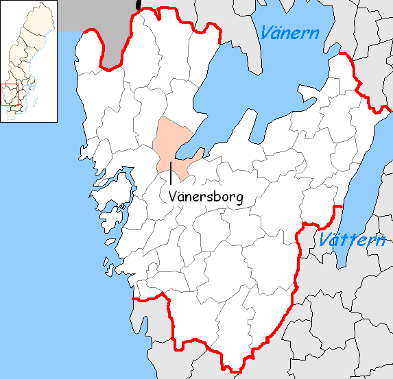 Vänersborg Municipality in Västra Götaland County Designed by me. Mere outlines are a PD source from